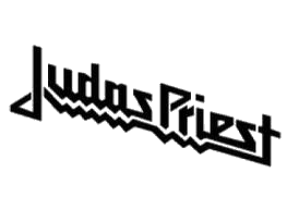 Logo of Judas Priest music group.